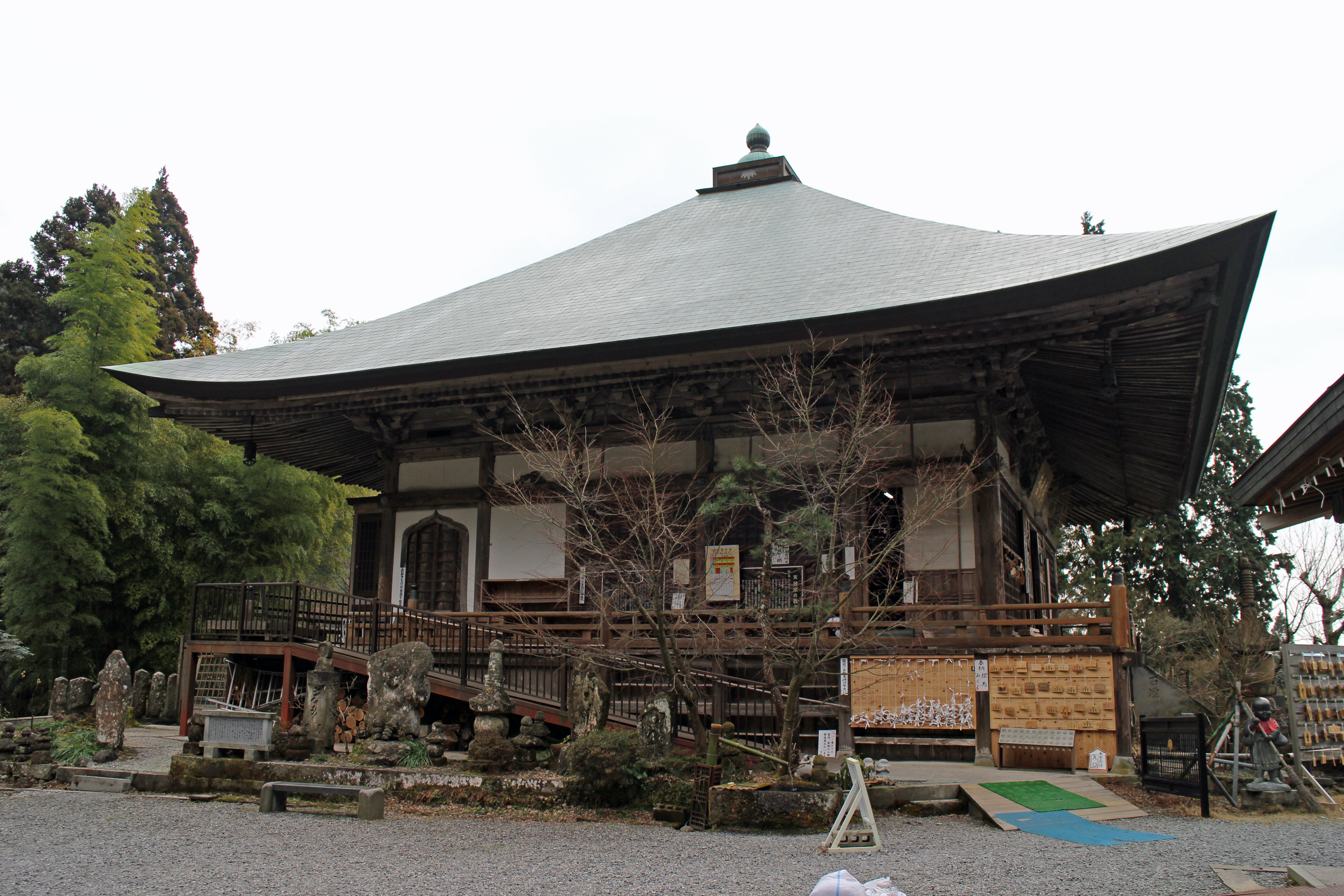 Futagoji-temple-Gomado